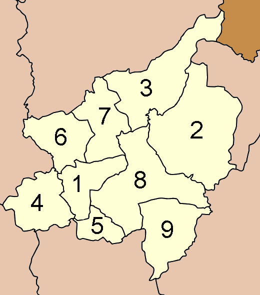 Map of Phitsanoluk province, Thailand, with the districts numbered Mueang Phitsanulok (อำเภอเมืองพิษณุโลก) Nakhon Thai (อำเภอนครไทย) Chat Trakan (อำเภอชาติตระการ) Bang Rakam (อำเภอบางระกำ) Bang Krathum (อำเภอบางกระทุ่ม) Phrom Phiram (อำเภอพรหมพิราม) Wat Bot (อำเภอวัดโบสถ์) Wang Thong (อำเภอวังทอง) Noen Maprang (อำเภอเนินมะปราง)